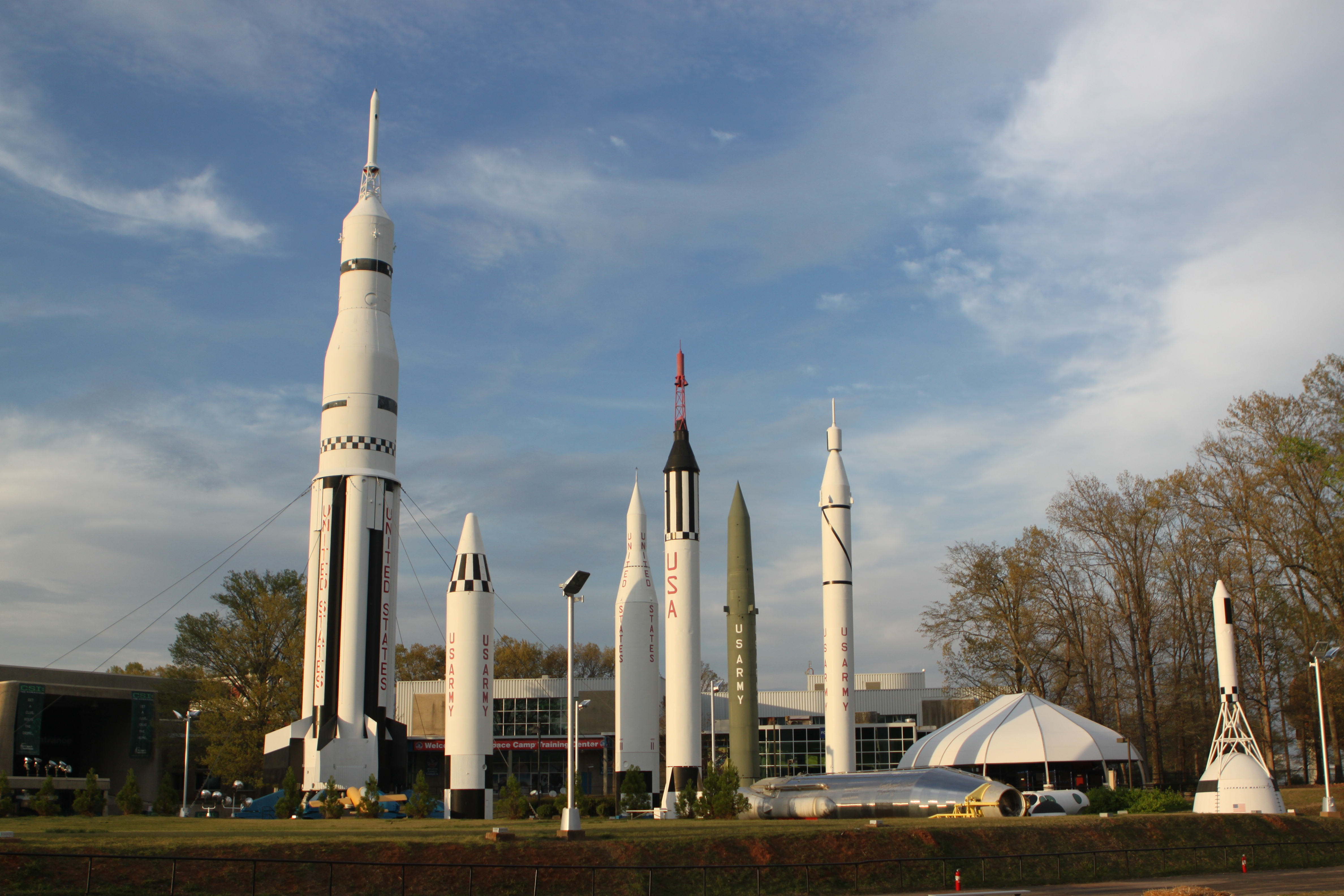 Mostly manned rockets on display outdoors within the United States Space & Rocket Center. From left to right: Saturn I, Jupiter IRBM, Juno II, Mercury-Redstone, Redstone, and Jupiter-C There is another cluster of military rockets on display not pictured.